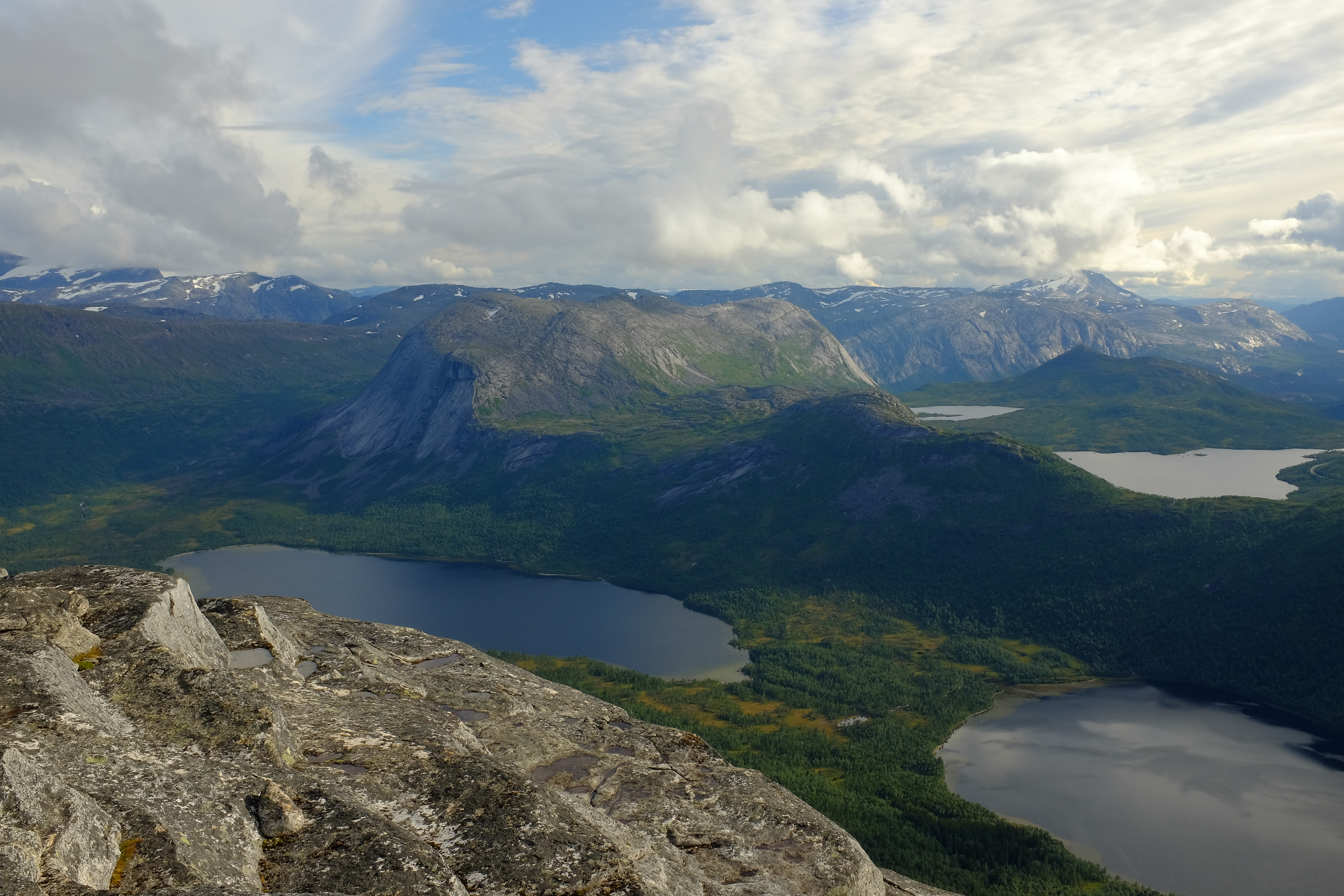 Sagvassdalen Nature Reserve is the furthest south in Hamarøy in Nordland, between Kråkmo Draw in the west, Šluŋkkajávri east, Rekvatnet north and the municipal boundary to Sørfold in the south.